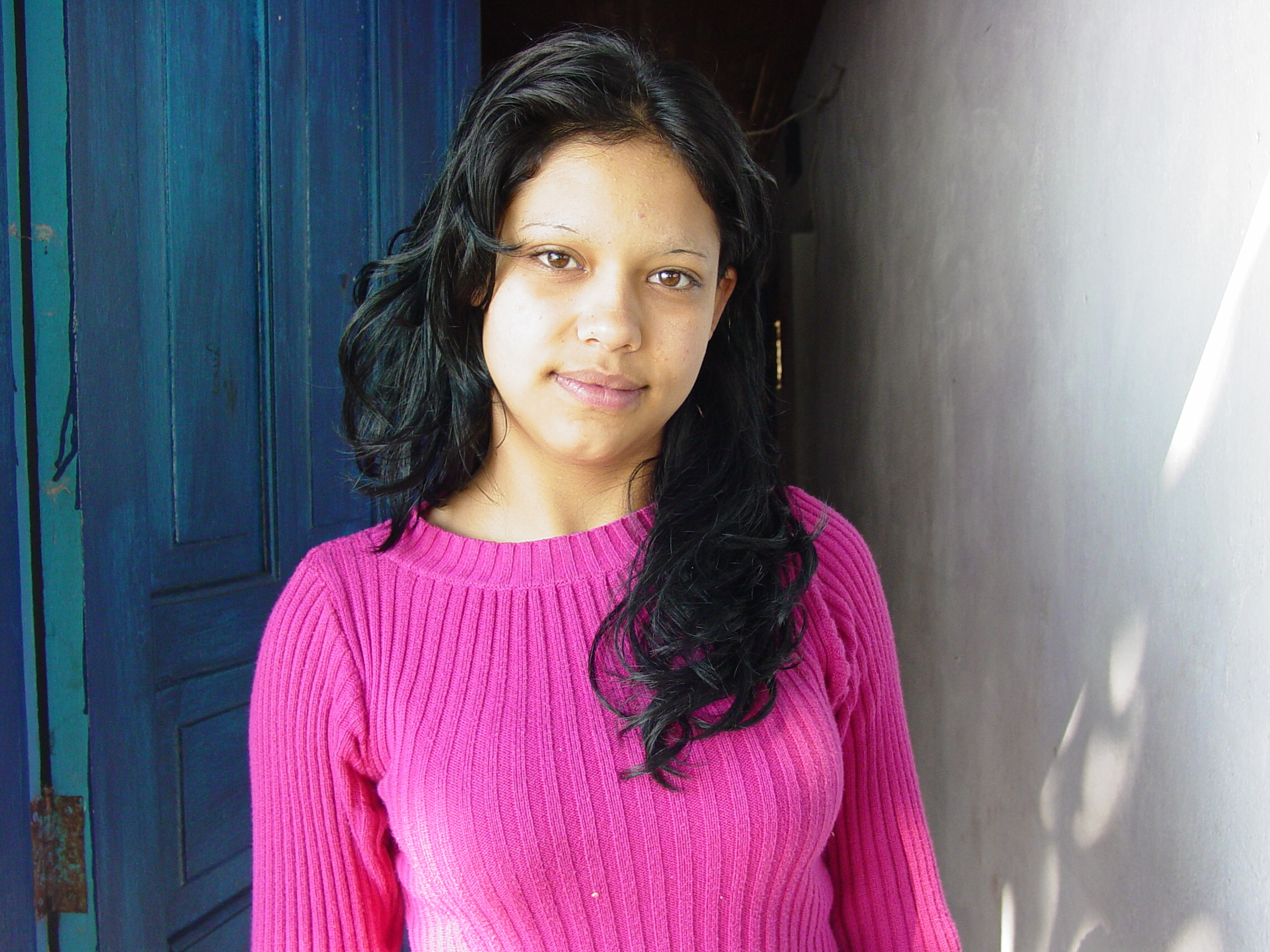 Adolescent girl in Sao Francisco do Sul, Brazil. July 2006.